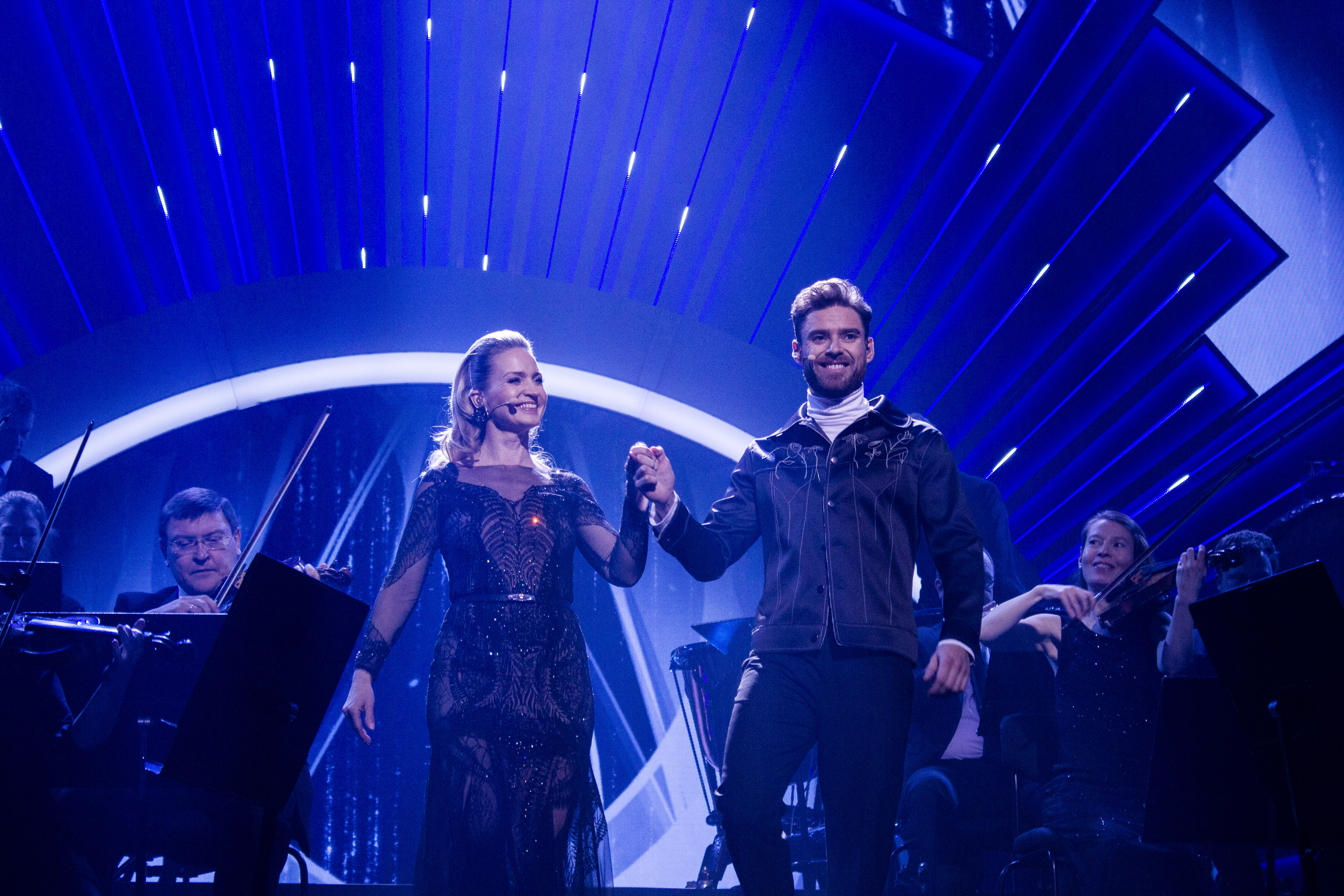 At the 2018 Danish Melodi Grand Prix